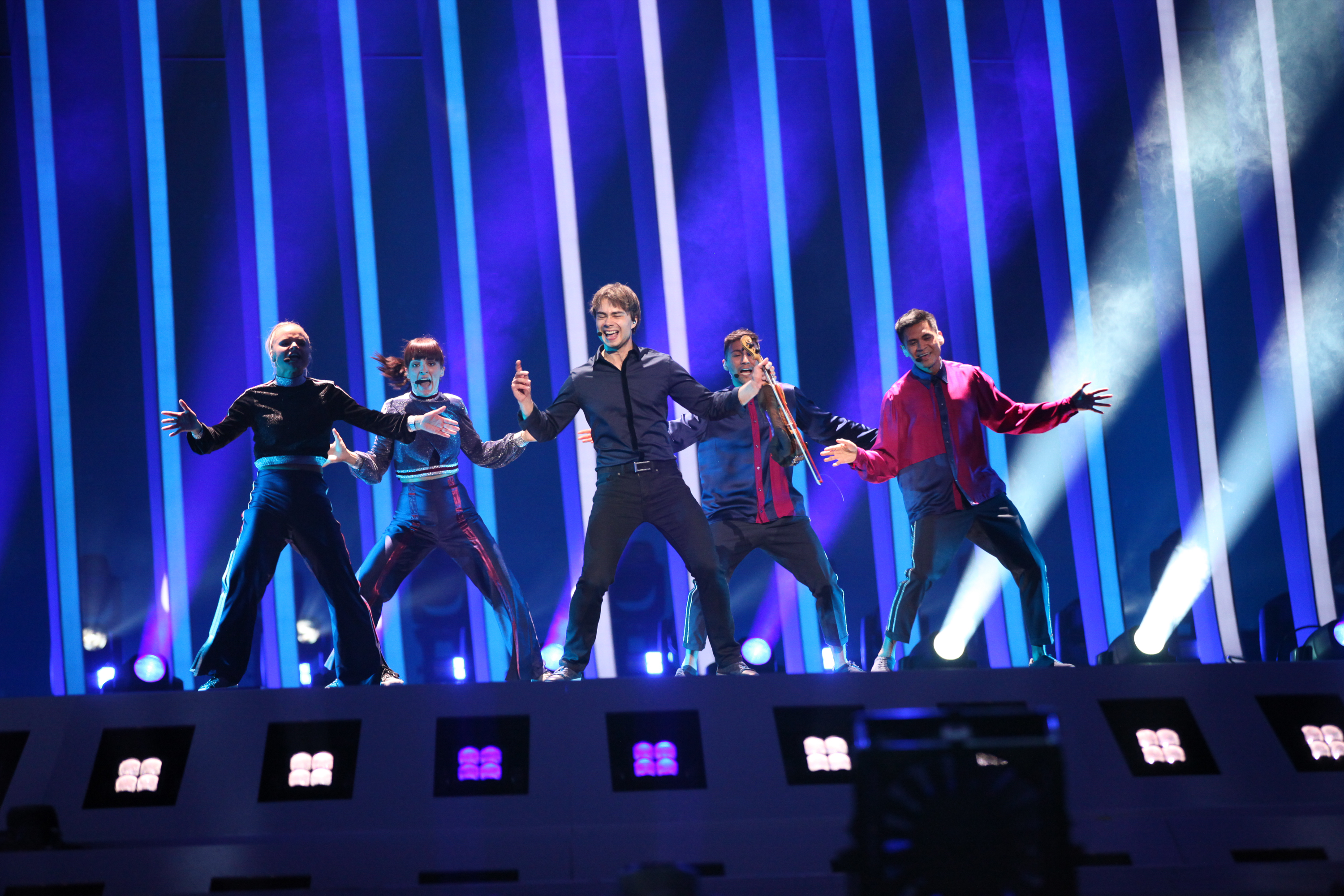 Alexander Rybak representing Norway with the song "That’s How You Write a Song" during a rehearsal before the second semi final of the Eurovision Song Contest 2018 in Lisbon.